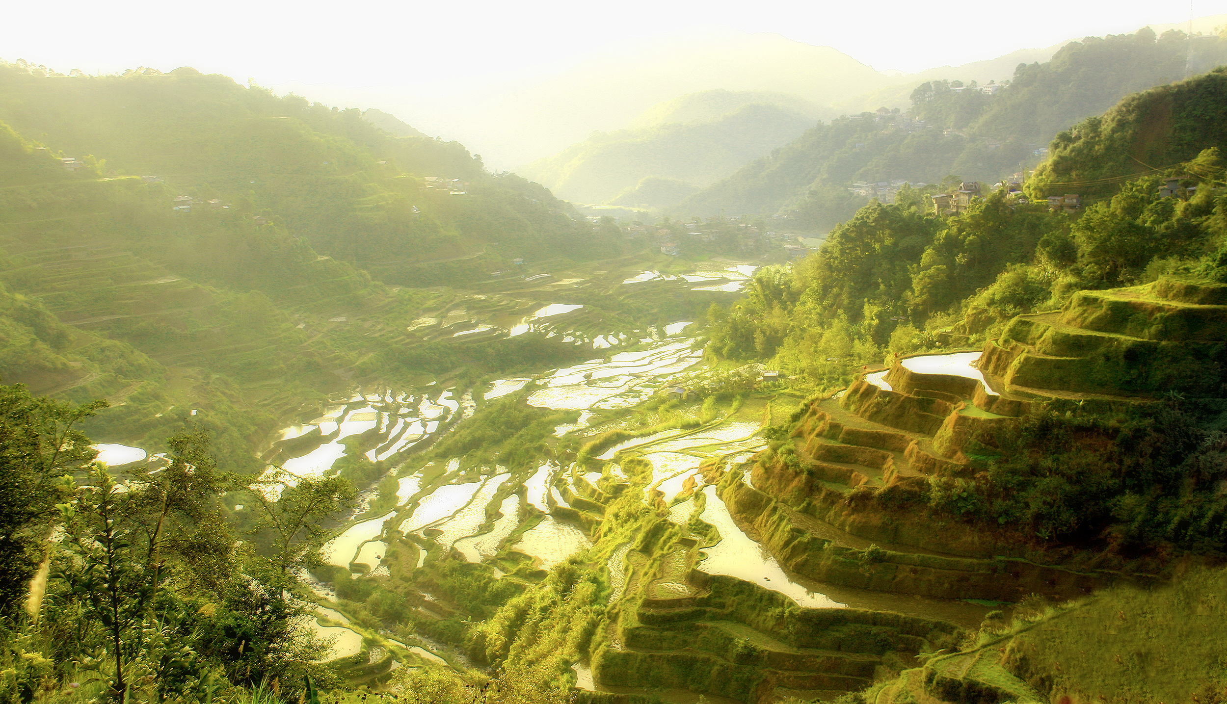 2000-year old terraces that were carved into the mountains of Ifugao in the Philippines by ancestors of the indigenous people